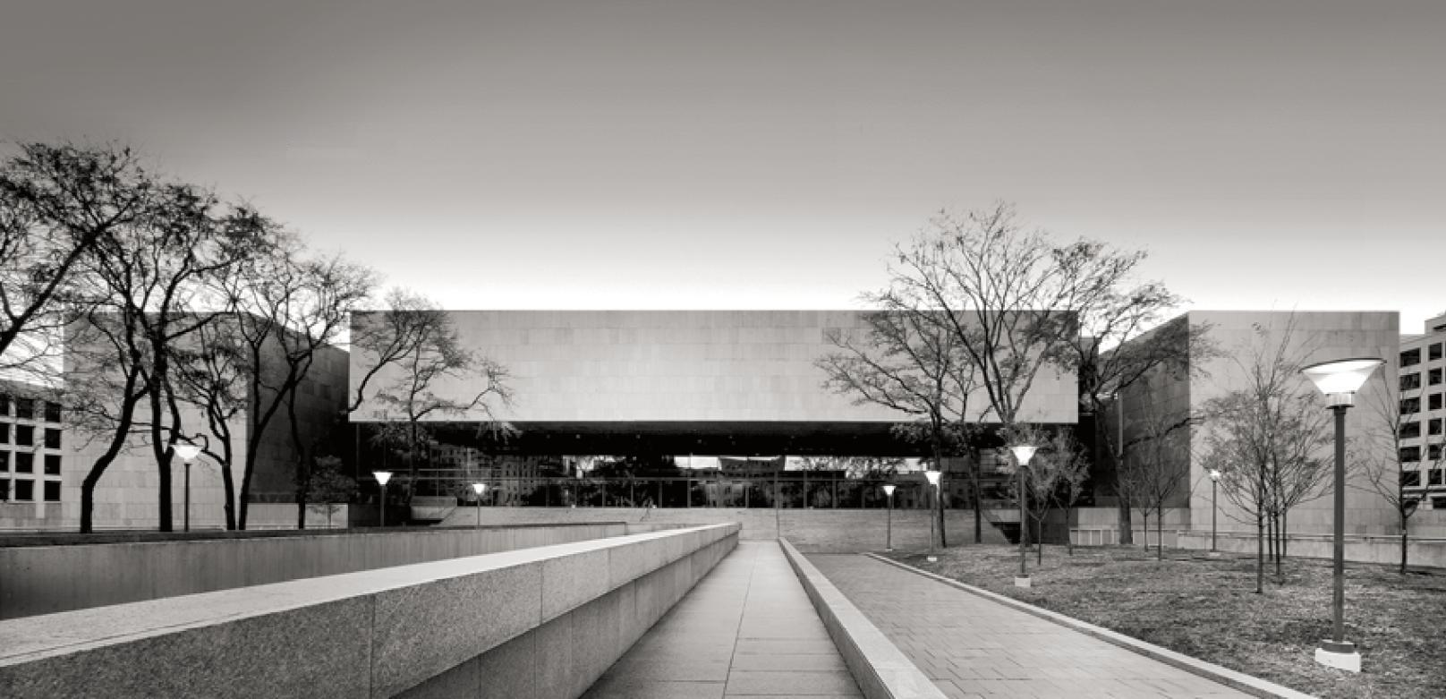 The United States Tax Court Building, in Washington, D.C., headquarters of the United States Tax Court.